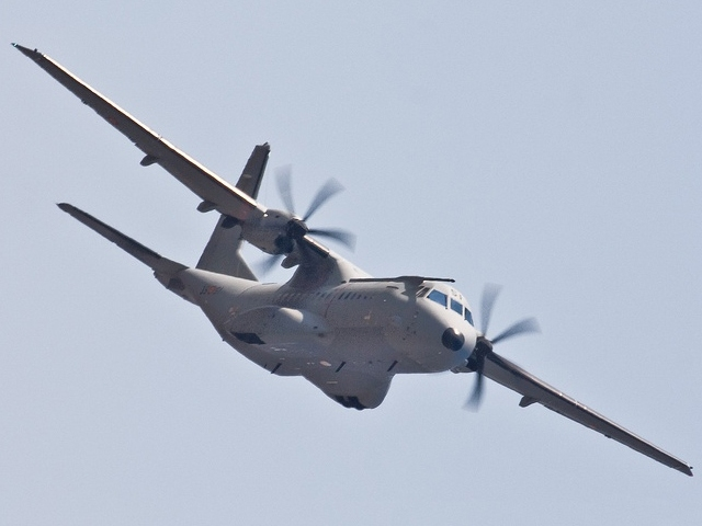 Spanish Air Force's CASA C-295 in Brno Air Show, september 2008.